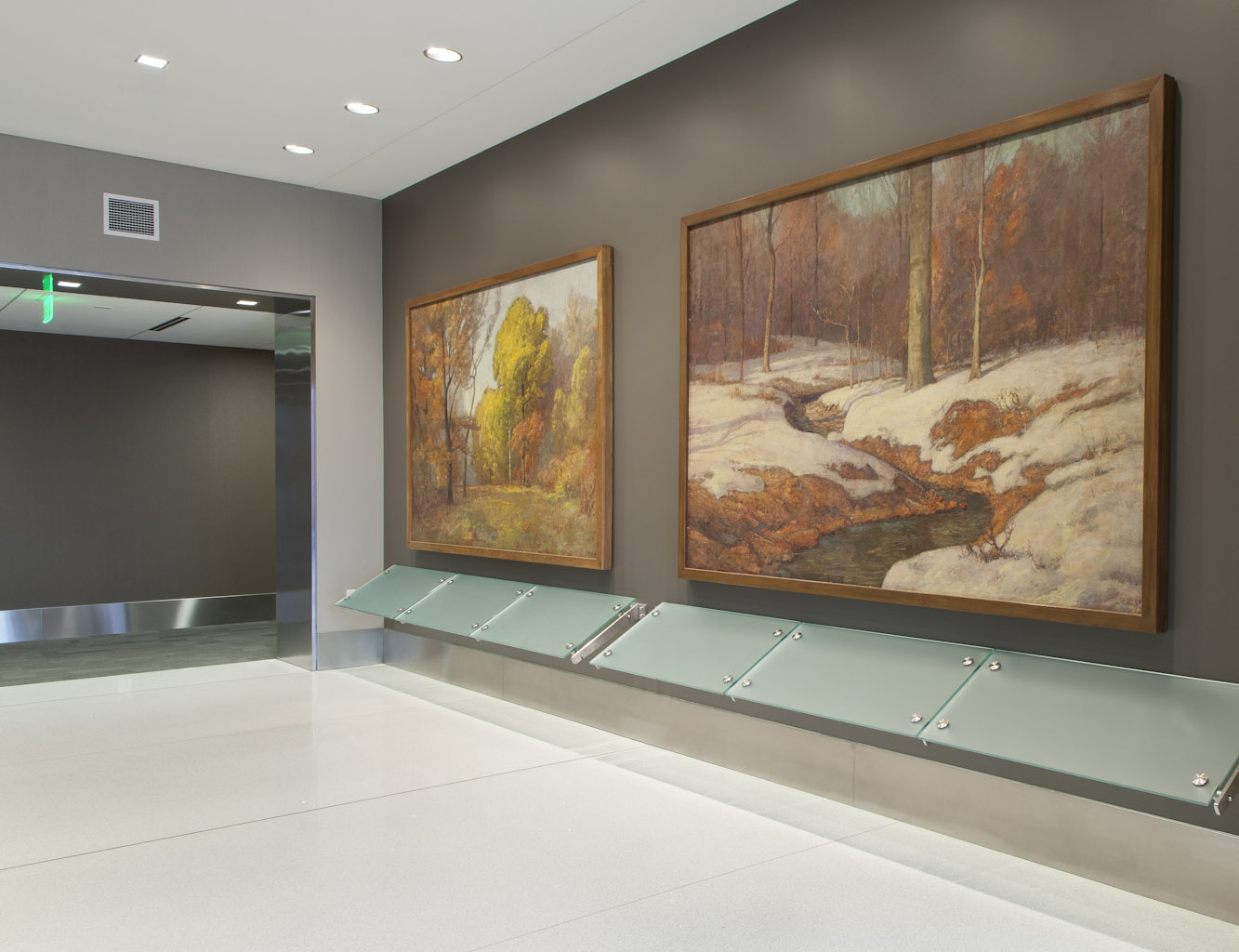 A view of T.C. Steel mural fragments showing the four seasons.